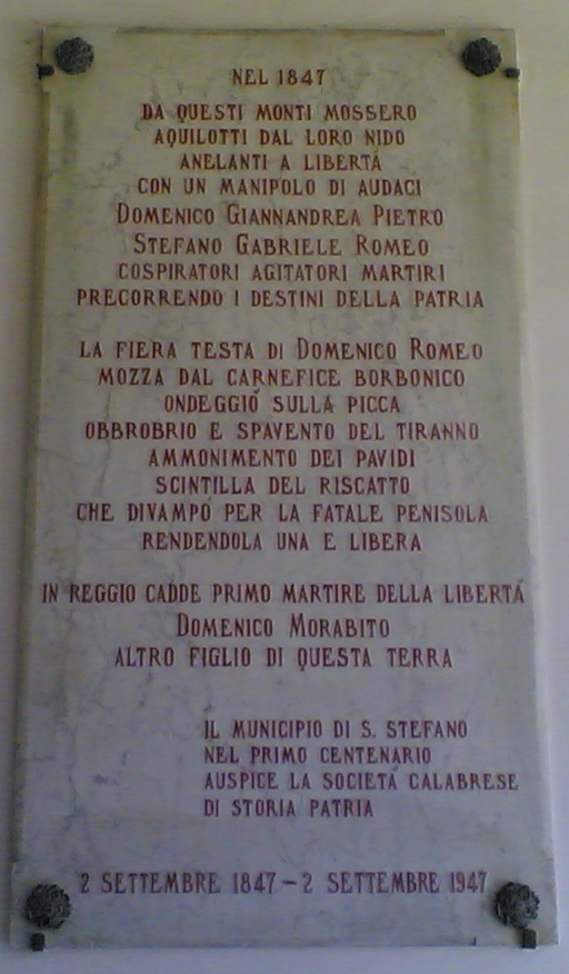 commemorative headstone the centennial of the revolutionary motions of reggio calabria